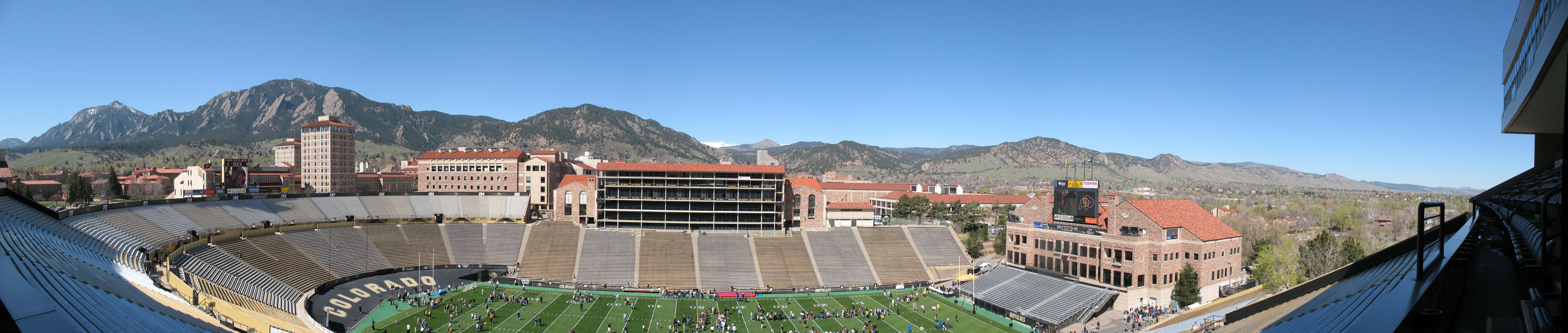 Folsom Field panorama view from club level suites before the 2007 Spring Game